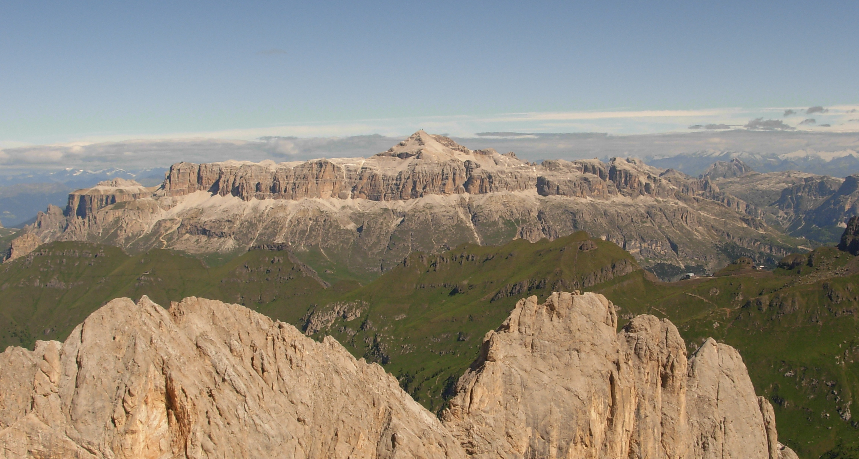 Sella group range - view from Marmolada